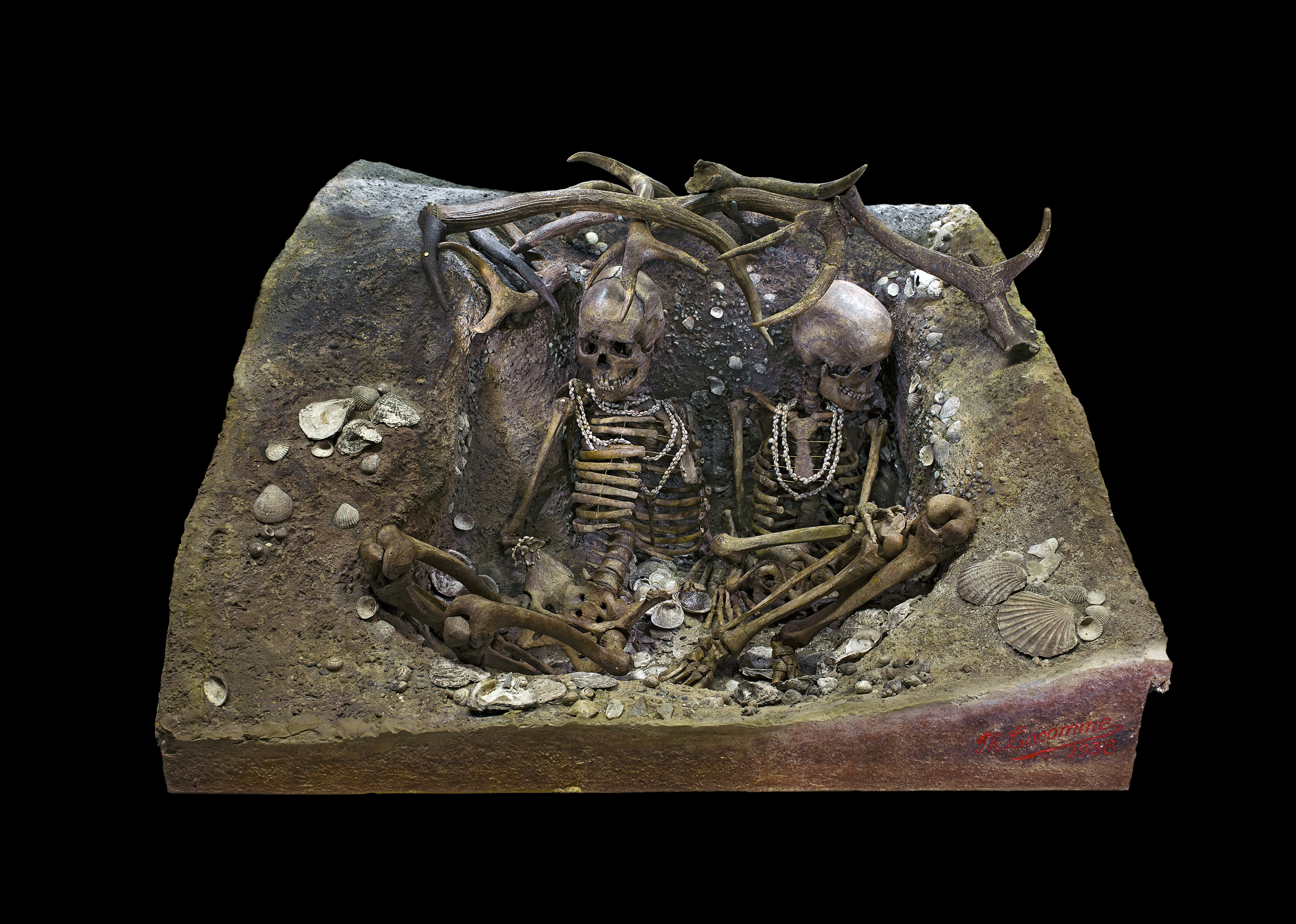 Tomb of Téviec. Two skeletons of women between 25 and 35 years of age, dated between -6740 and -5680 BP Mesolithic. They died a violent death, with several head injuries and impacts of arrows. The two bodies were buried with great care in a pit half in the basement rock (underlying or country rock) and half in the kitchen debris that covered them. The tomb is protected by antlers. The grave goods include flint and bone (mainly wild boar) offerings? and funeral jewelry which is made of marine shells drilled and assembled into necklaces, bracelets and ankle rings. Some of the bone objects have engraved lines. Recovery in 1938 restoration 2010. See [1]